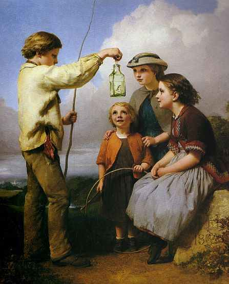 The Eft (Newt)